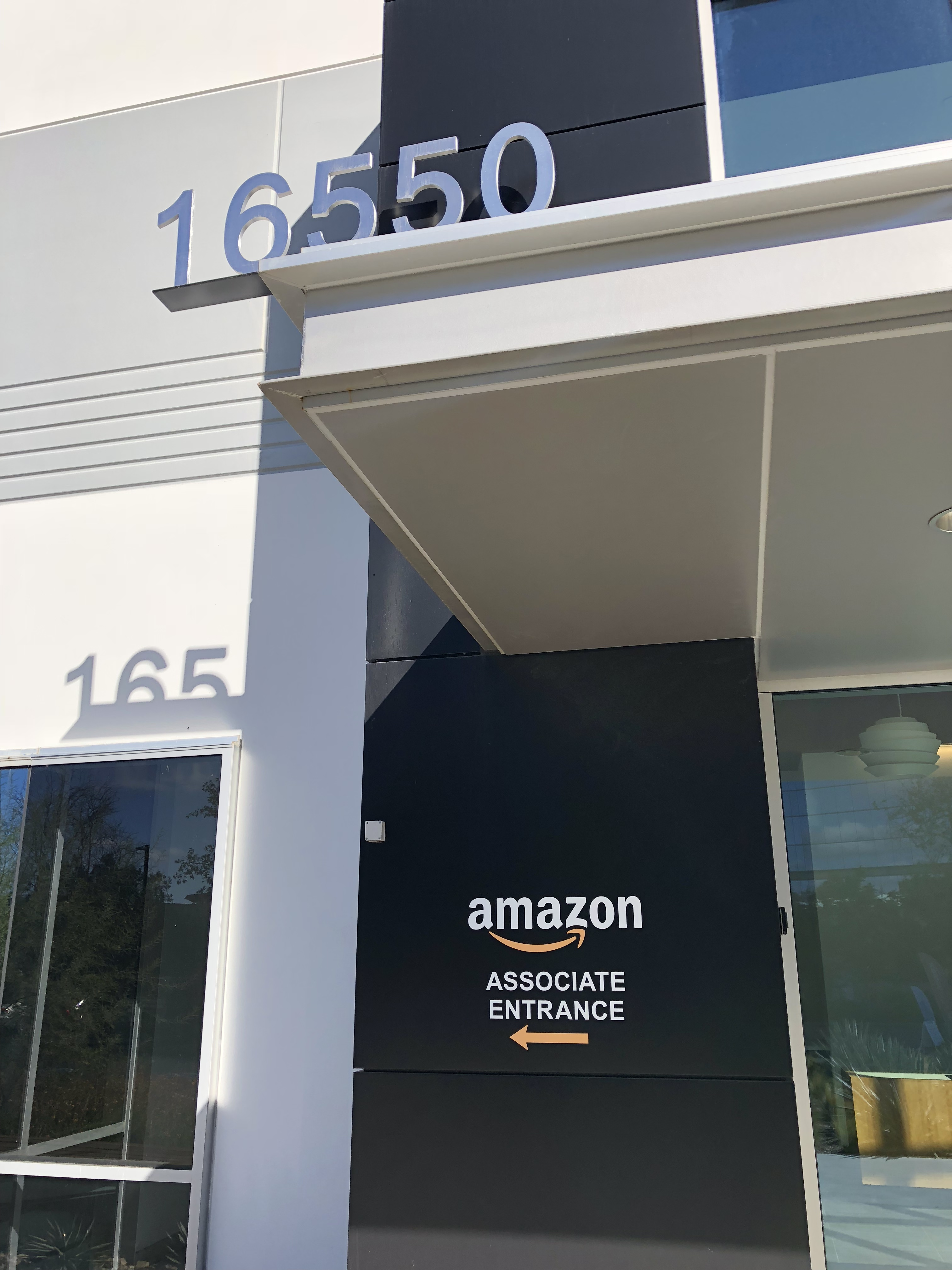 Photo of Amazon's DSD1 location.